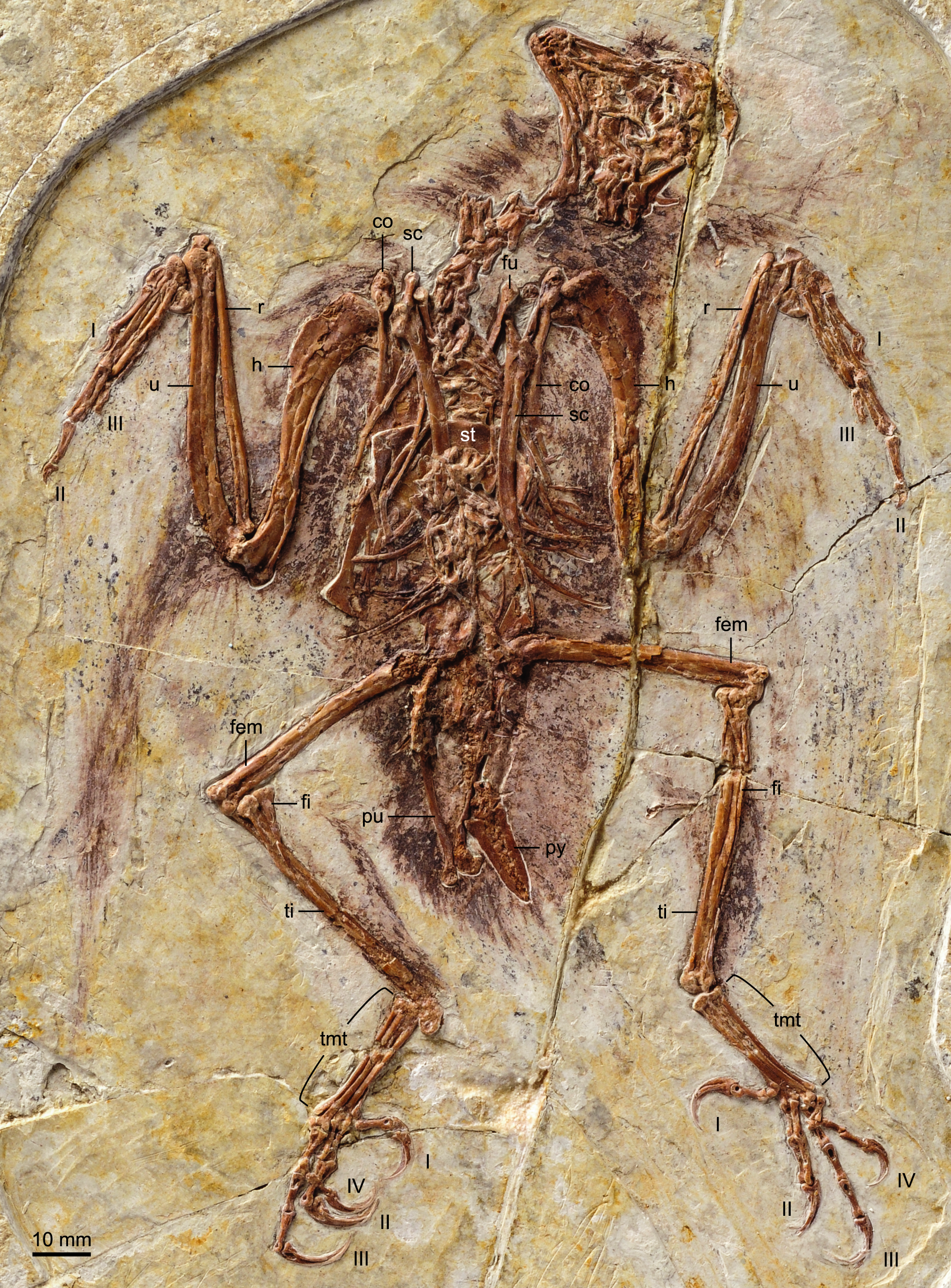 Photograph of the holotype of Zhouornis hani, CNUVB-0903. Abbreviations: co, coracoid; fem, femur; fi, fibula; fu, furcula; h, humerus; pu, pubis; py, pygostyle; r, radius; sc, scapula; st, sternum; ti, tibiotarsus; tmt, tarsometatarsus; u, ulna; I–IV, digits I–IV.